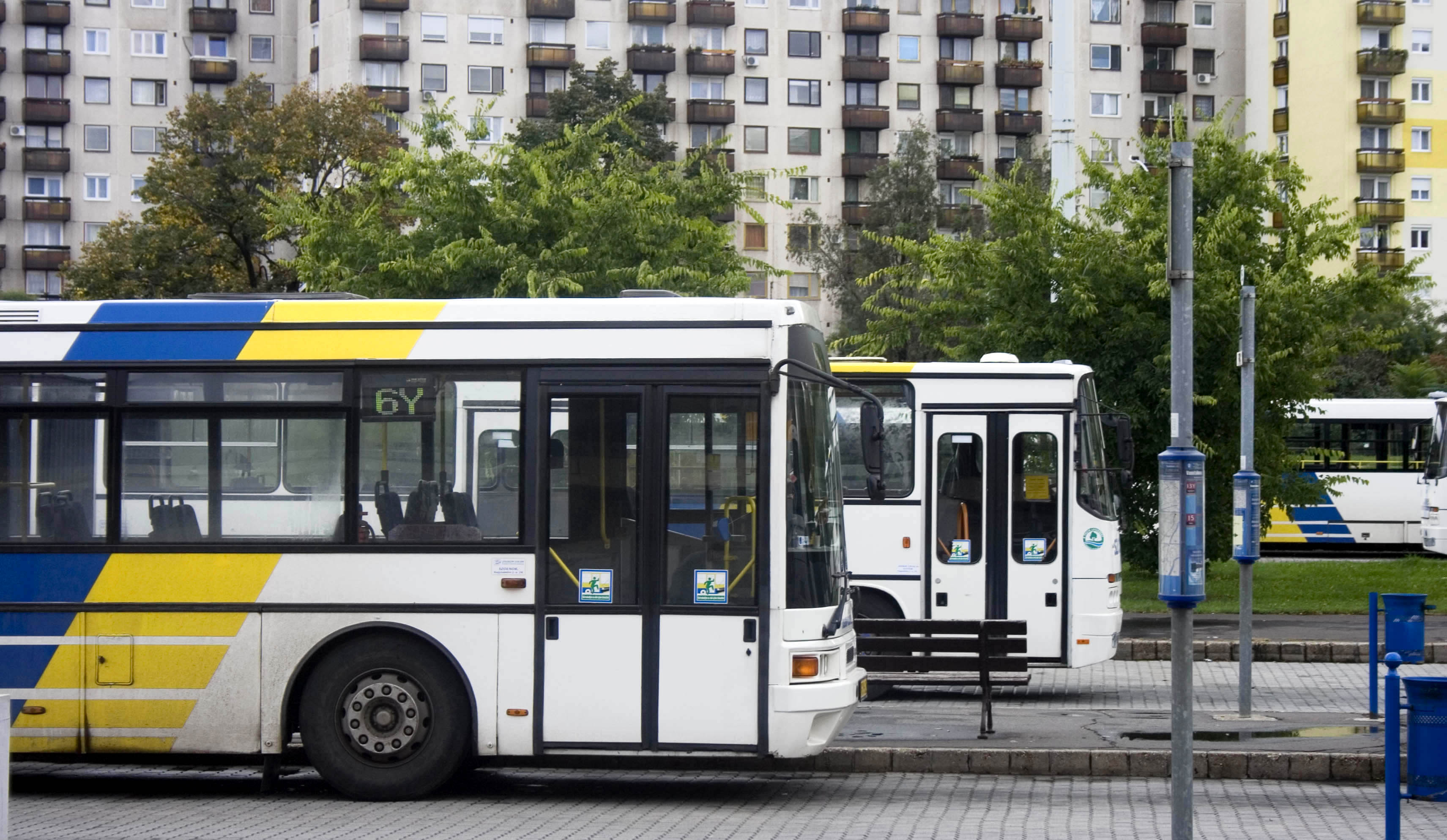 Hungary Szolnok Bus Station & Jubilee Square -Jaszkunvolan